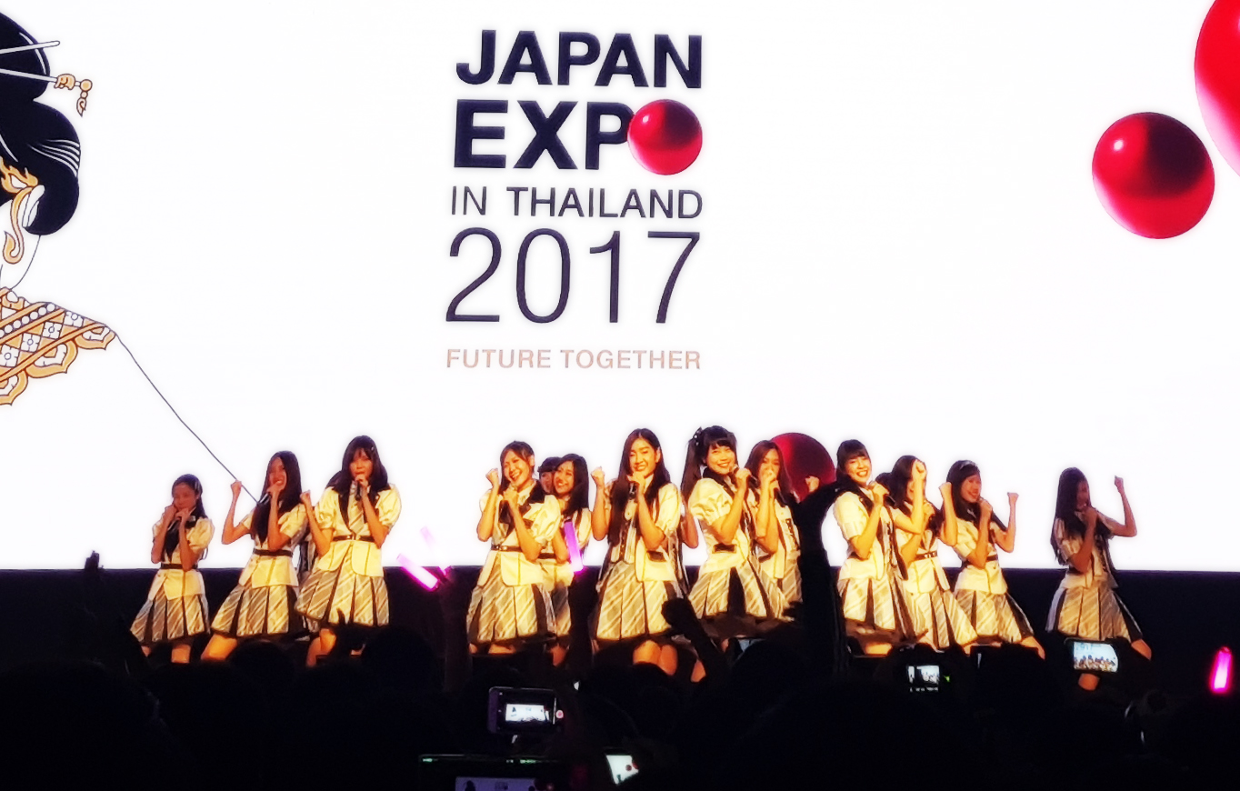 BNK48 at the event Japan Expo in Thailand 2017, held at the Paragon Hall, Floor 5, Siam Paragon, Bangkok, on 1 September 2017. The participating members were Can, Cherprang, Jaa, Jan, Jennis, Kaimook, Miori, Mobile, Music, Namhom, Noey, Pun, Pupe, Rina Izuta, Satchan, and Tarwaan.